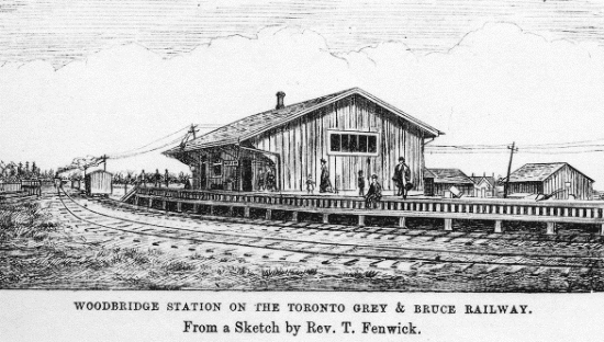 Title: Woodbridge Station on the Toronto Grey & Bruce Railway Artist: Fenwick, T., Act. 1873-1880 Date: 1880-03-06 Pagination: vol.XXI, no. 10. 156 Subject: Woodbridge (Vaughan, Ont.) Toronto Grey & Bruce Railway Date: 1880-03-06 Remark: From a sketch by Rev. T. Fenwick Item Number: 14 [editor's note: 1871: Toronto Grey and Bruce Railway opens. The track runs along the west side of present day Kipling Ave., per here: Toronto Star article ]